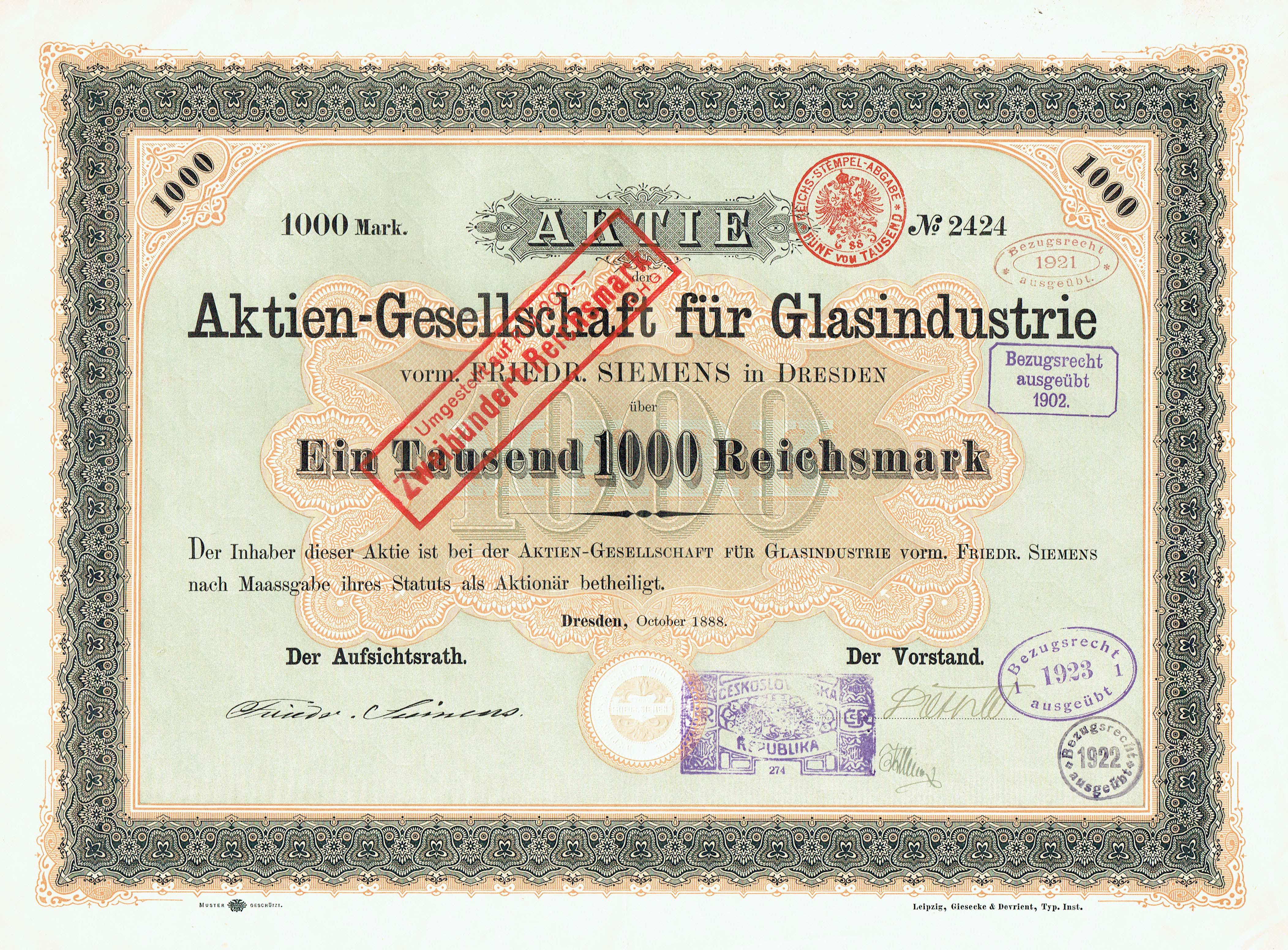 Share of the AG für Glasindustrie vorm. Friedr. Siemens, issued October 1888